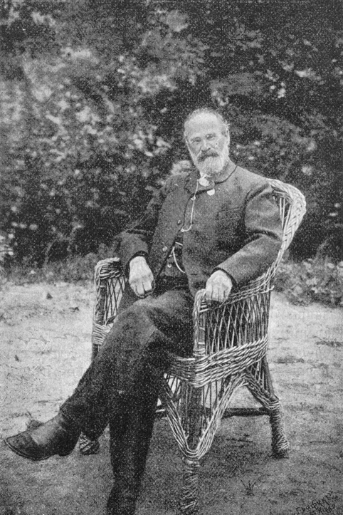 William Berenshtam - Ukrainian activist, teacher, scholar and archaeologist.